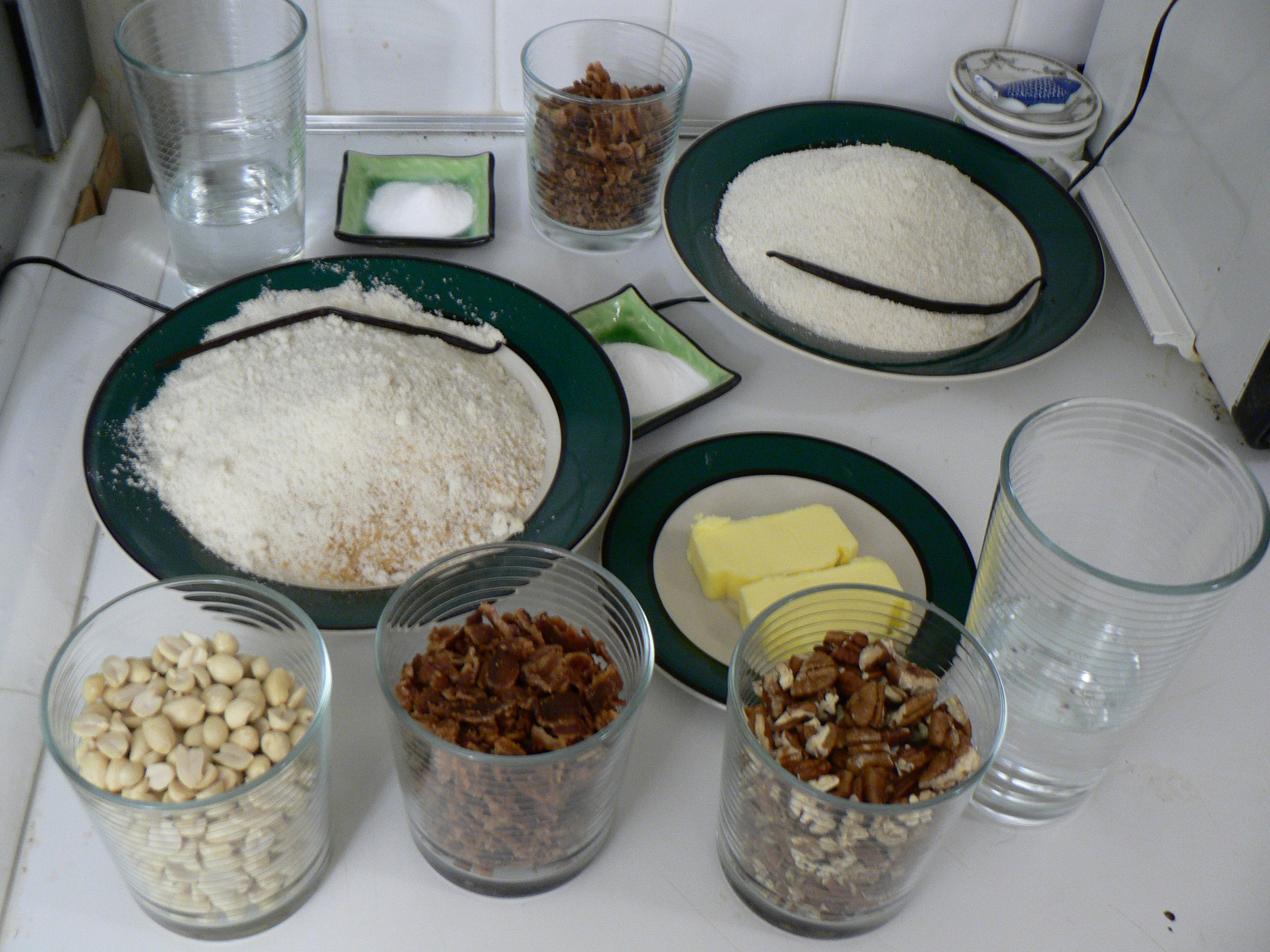 mise en place for bacon peanut brittle